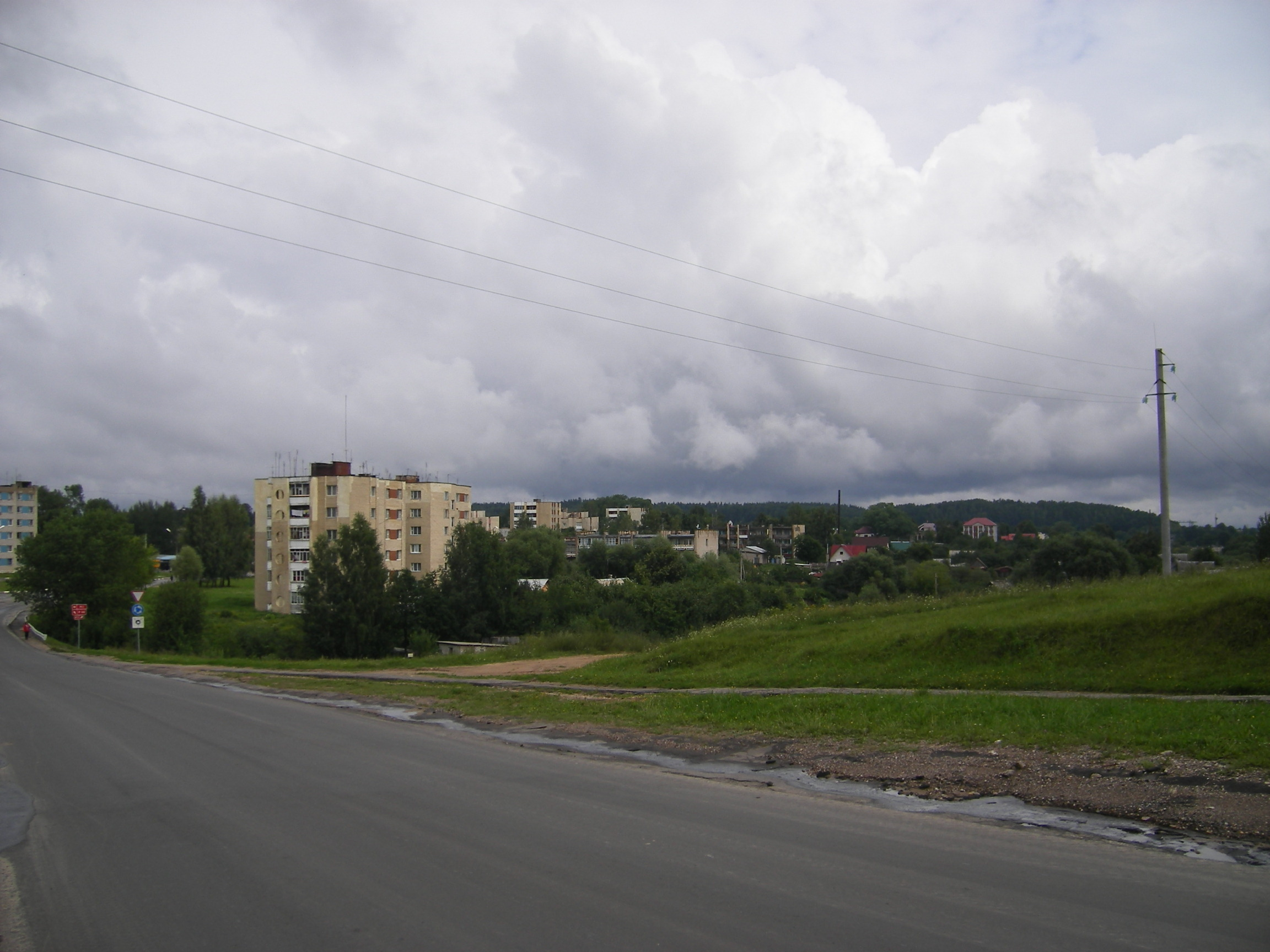 Lahoisk, Southern Part